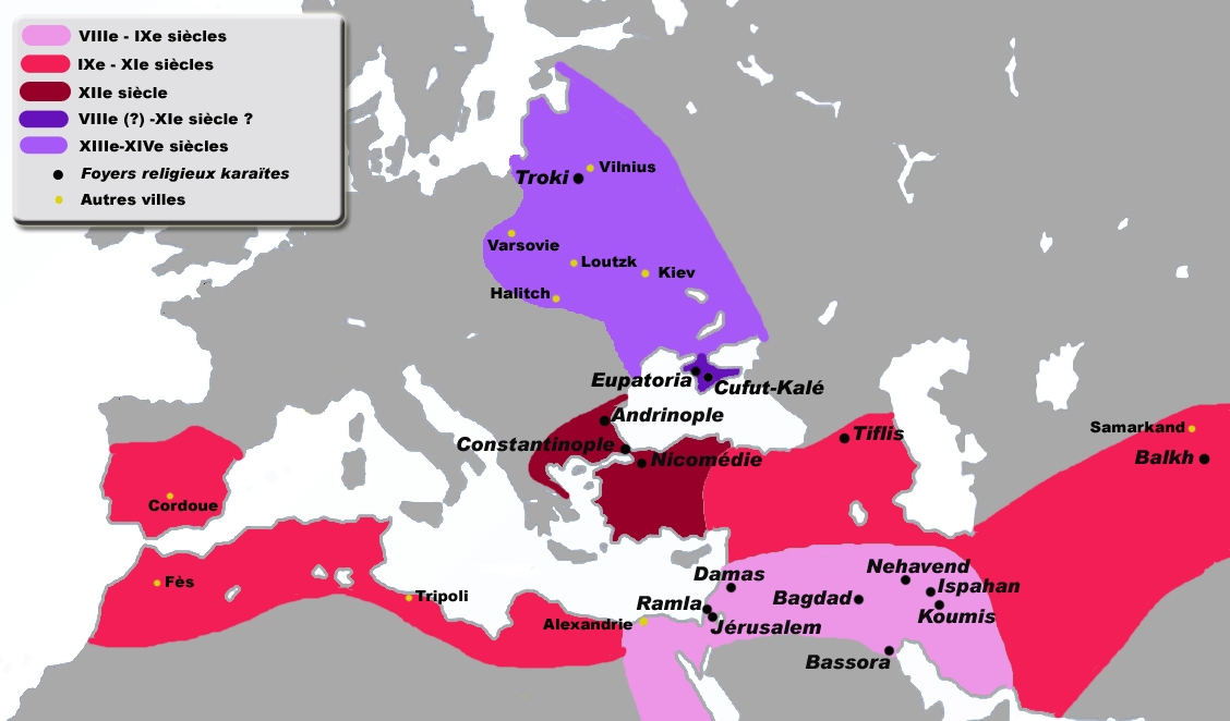 historical map of Karaïsm